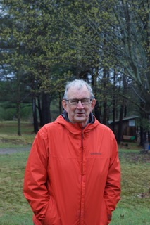 Gary Denniss at Langford Cemetery, Bracebridge, May, 2017